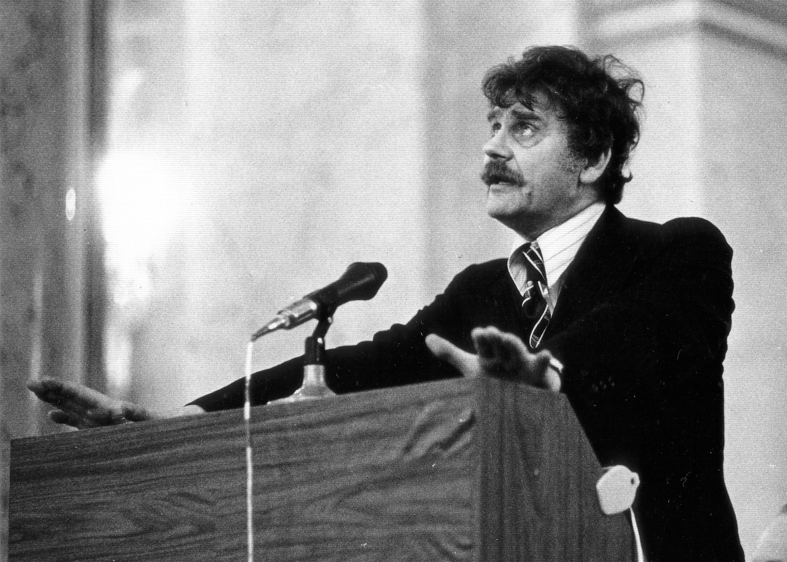 Austrian poet H.C. Artmann on 1974-11-21, during his acceptance speech when getting Grand Austrian State Prize for literature. The poet however never cared very much about such things... (Nikon 85mm lens; available light, no flash).